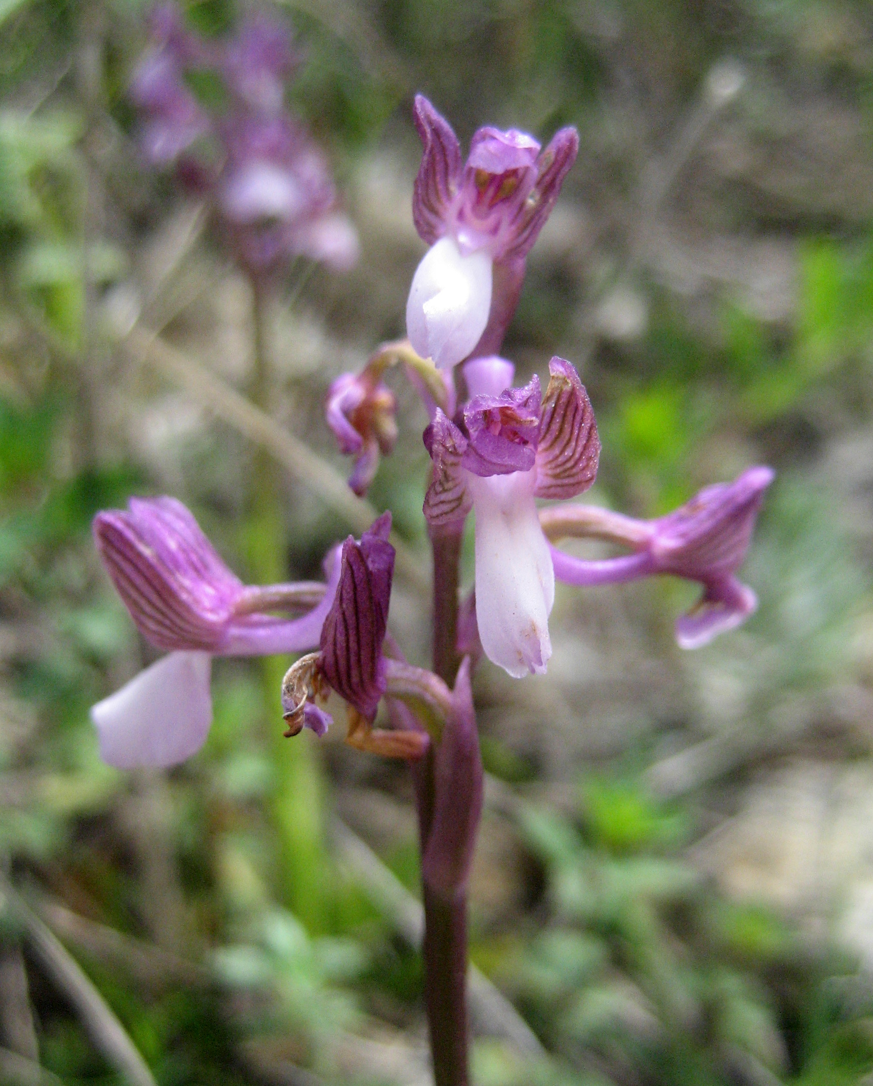 Anacamptis syriaca or Anacamptis morio subsp. syriaca Samandağ, Hatay province, Turkey